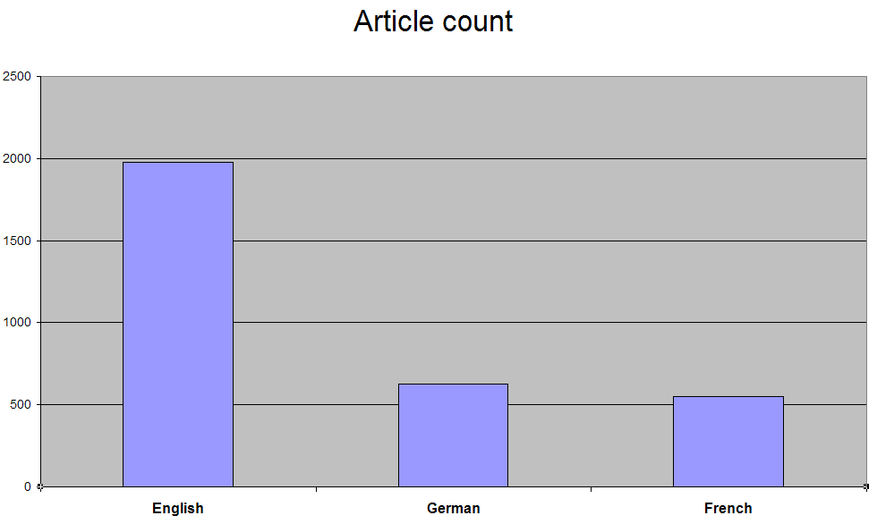 Comparison of the three biggest Wikipedias (by article count)